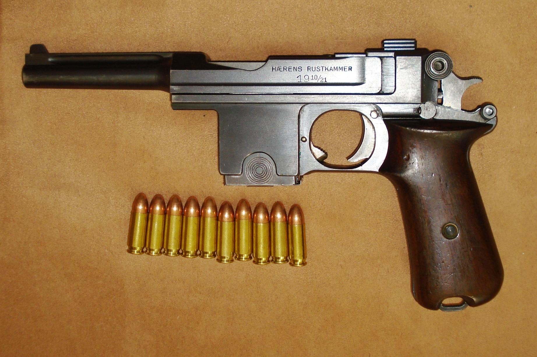 Danish 9 mm Bergmann M1910/21 pistol, left view.